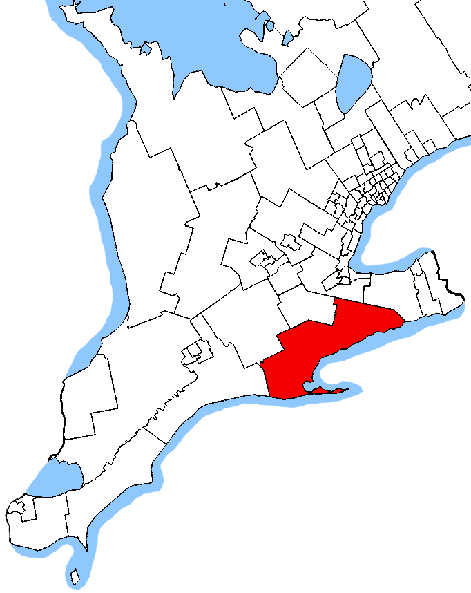 Map of the Haldimand—Norfolk electoral district. Based on Earl Andrew's maps, created by SimonP.